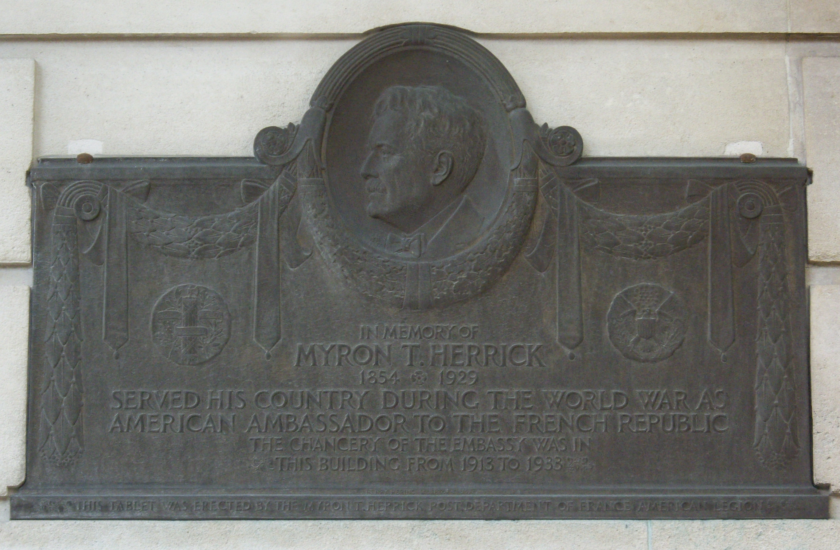 Commemorative plaque, 5 Rue de Chaillot, Paris 16th. "In memory of Myron T. Herrick, 1854-1929. Served his country during the World War as American ambassador to the French Republic. The chancery of the embassy was in this building from 1913 to 1933. This tablet was erected by the Myron T. Herrick Post, Department of France, American Legion."